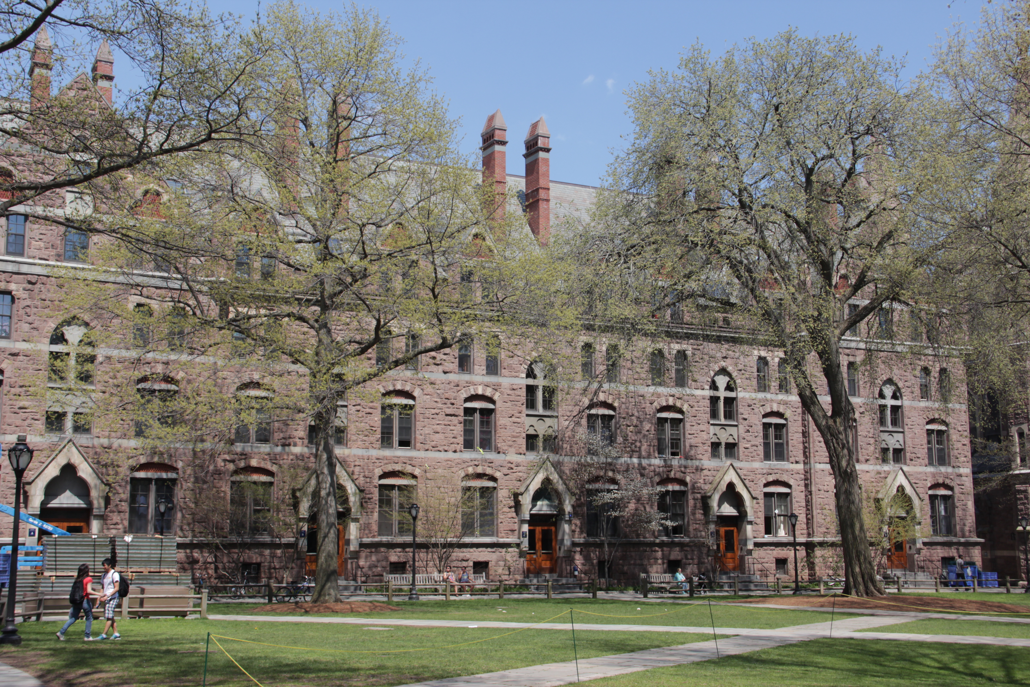 Durfee Hall, a freshman dormitory andthe northern boundary of Old Campus, Yale University, New Haven, CT